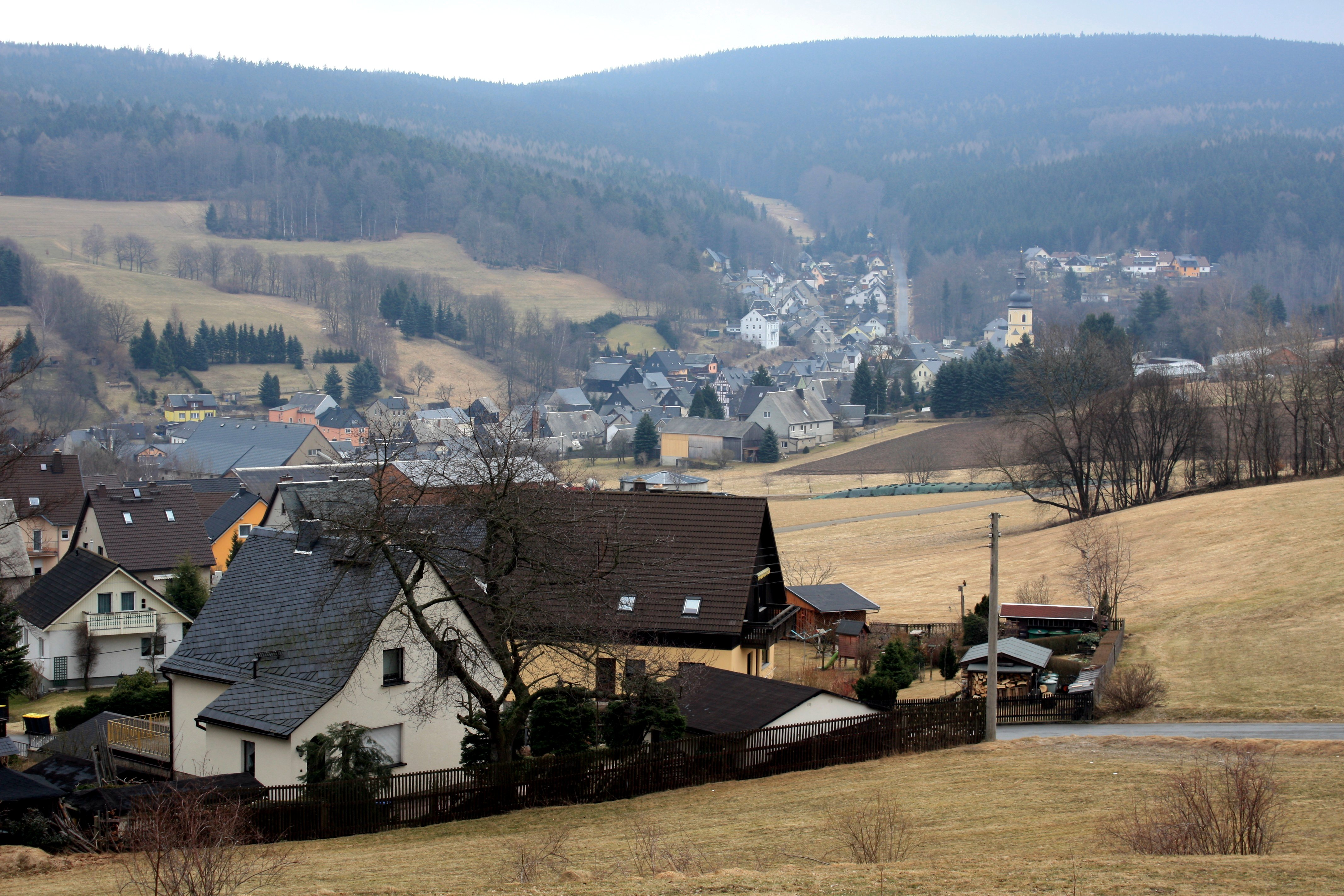 Upper part of Bockau